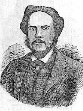 Robert Bownas Wormald (1834-1876), English chess master and composer